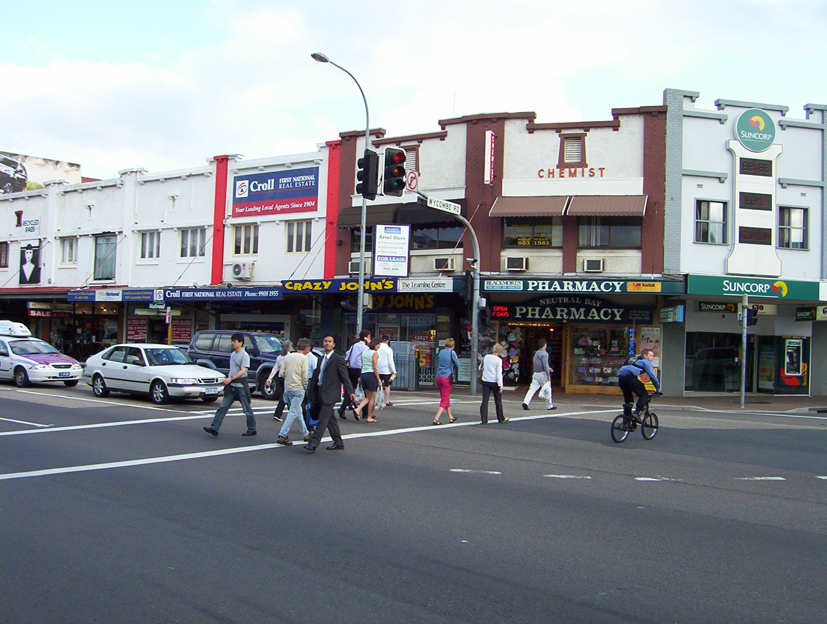 Neutral Bay Junction on Military Road, New South Wales.